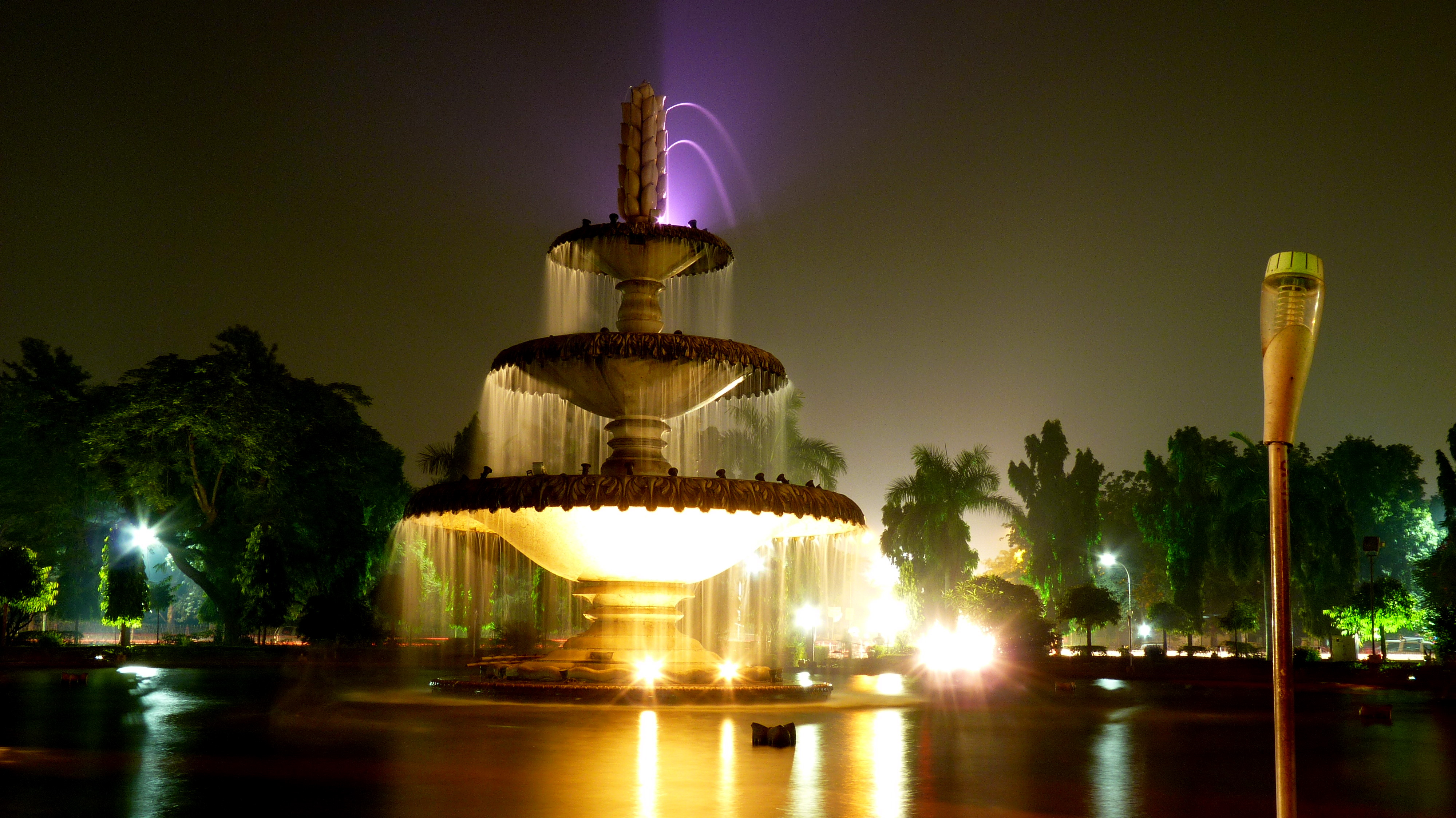 fountain in night udaipur